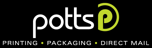 Reverse colour version of logo